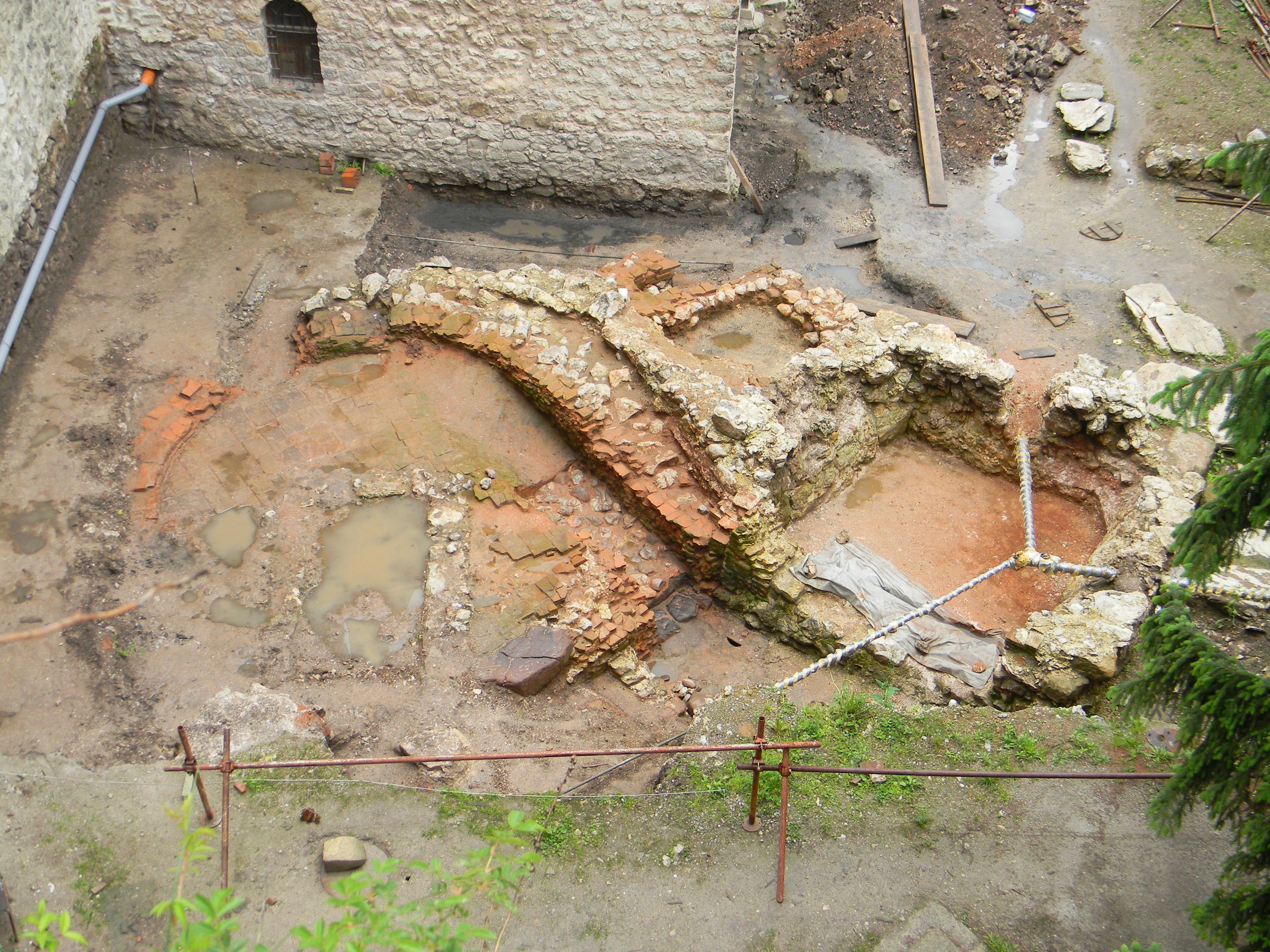 Fortress and Monastery of Manasija, near Despotovac, Serbia